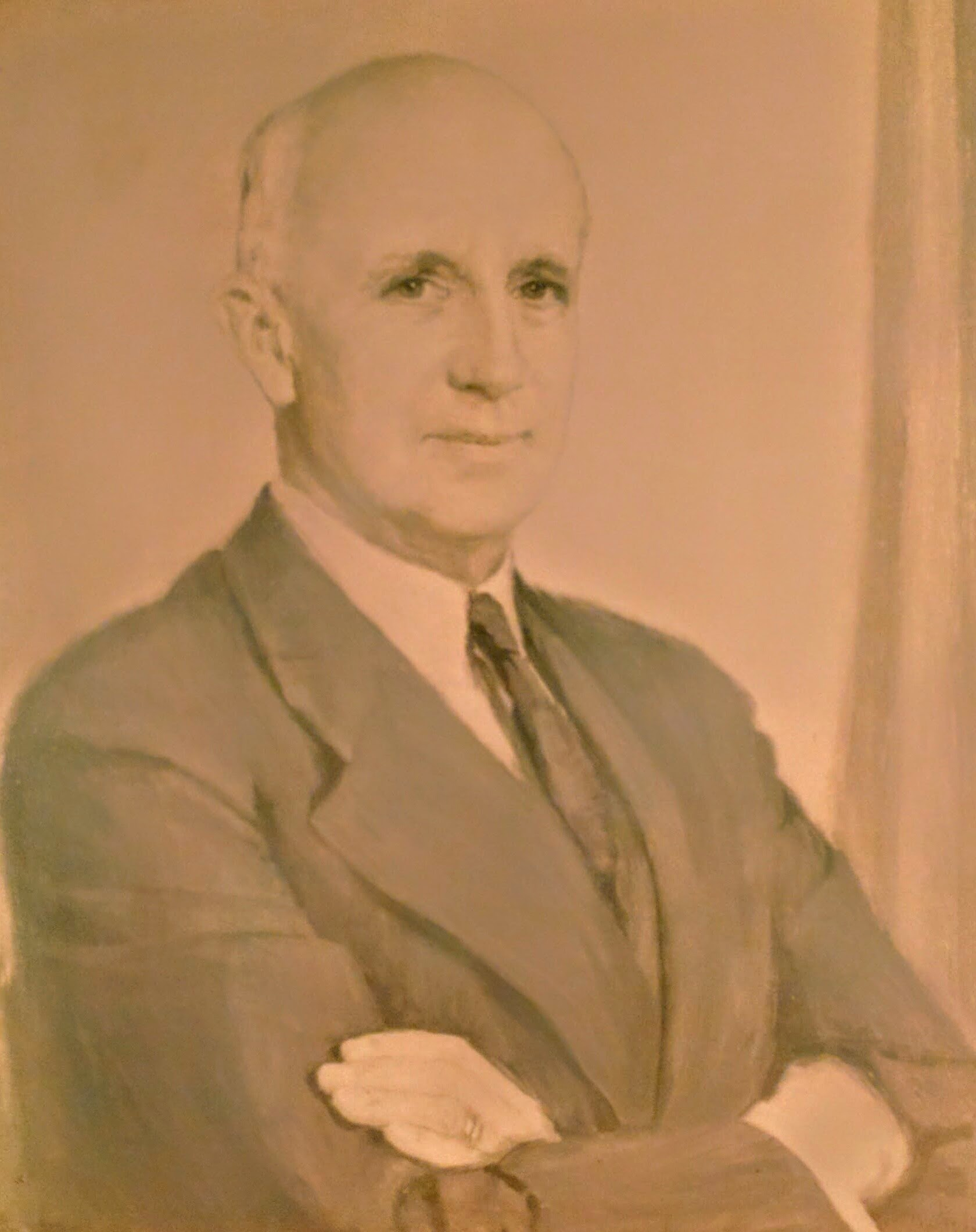 Oil painting of Thorsten Ericson